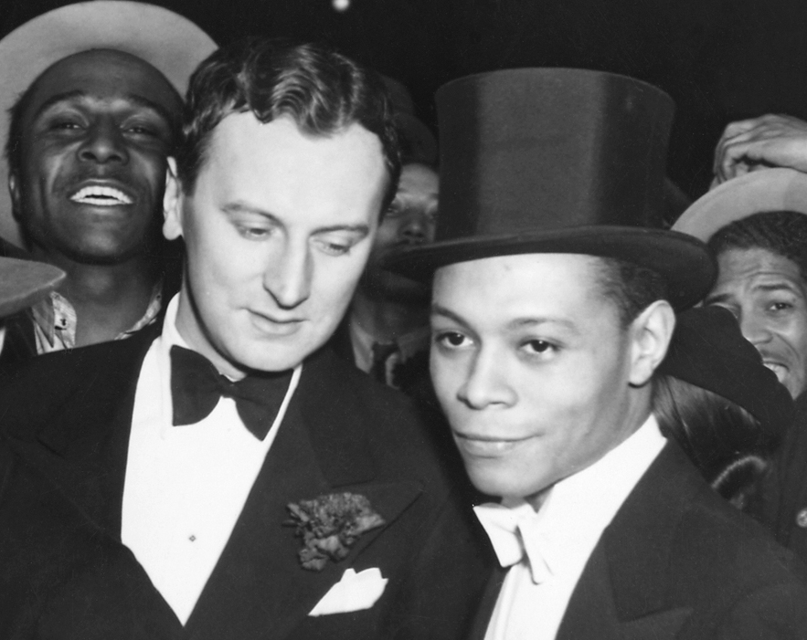 Photograph of opening-night audience for the Federal Theatre Project production of Macbeth at the Lafayette Theatre